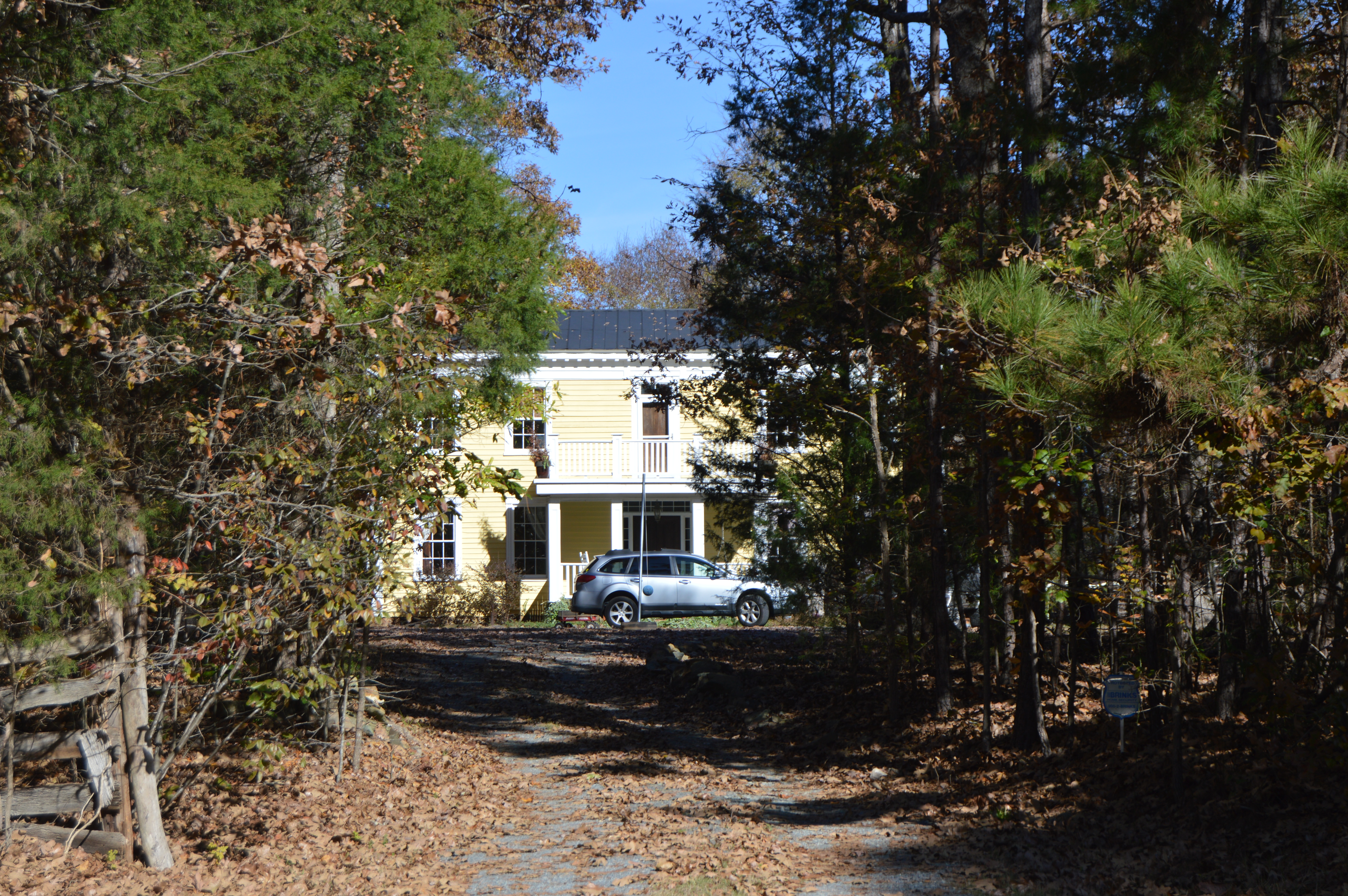 Front of the Luther Clegg House, located on Moncure Pittsboro Road southeast of Pittsboro in Chatham County, North Carolina, United States. Built in 1850, it is listed on the National Register of Historic Places.